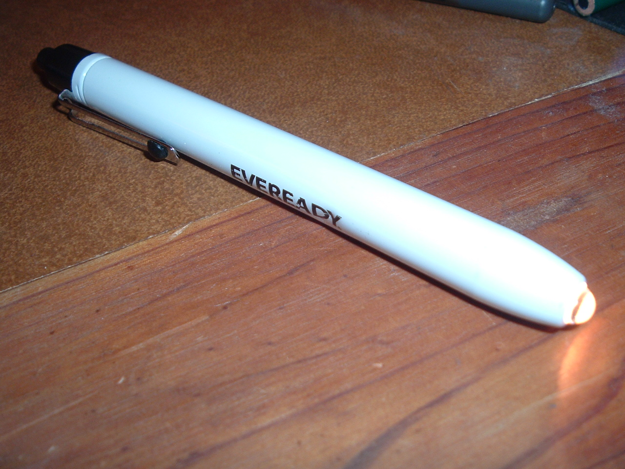 Photo of a penlight for Penlight article